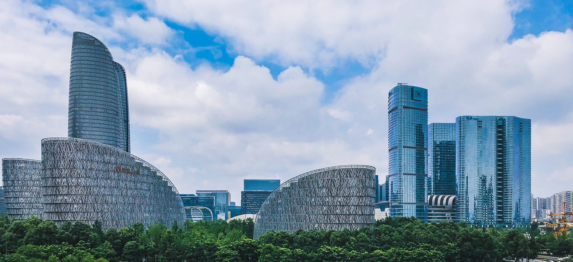 Tianfu Center